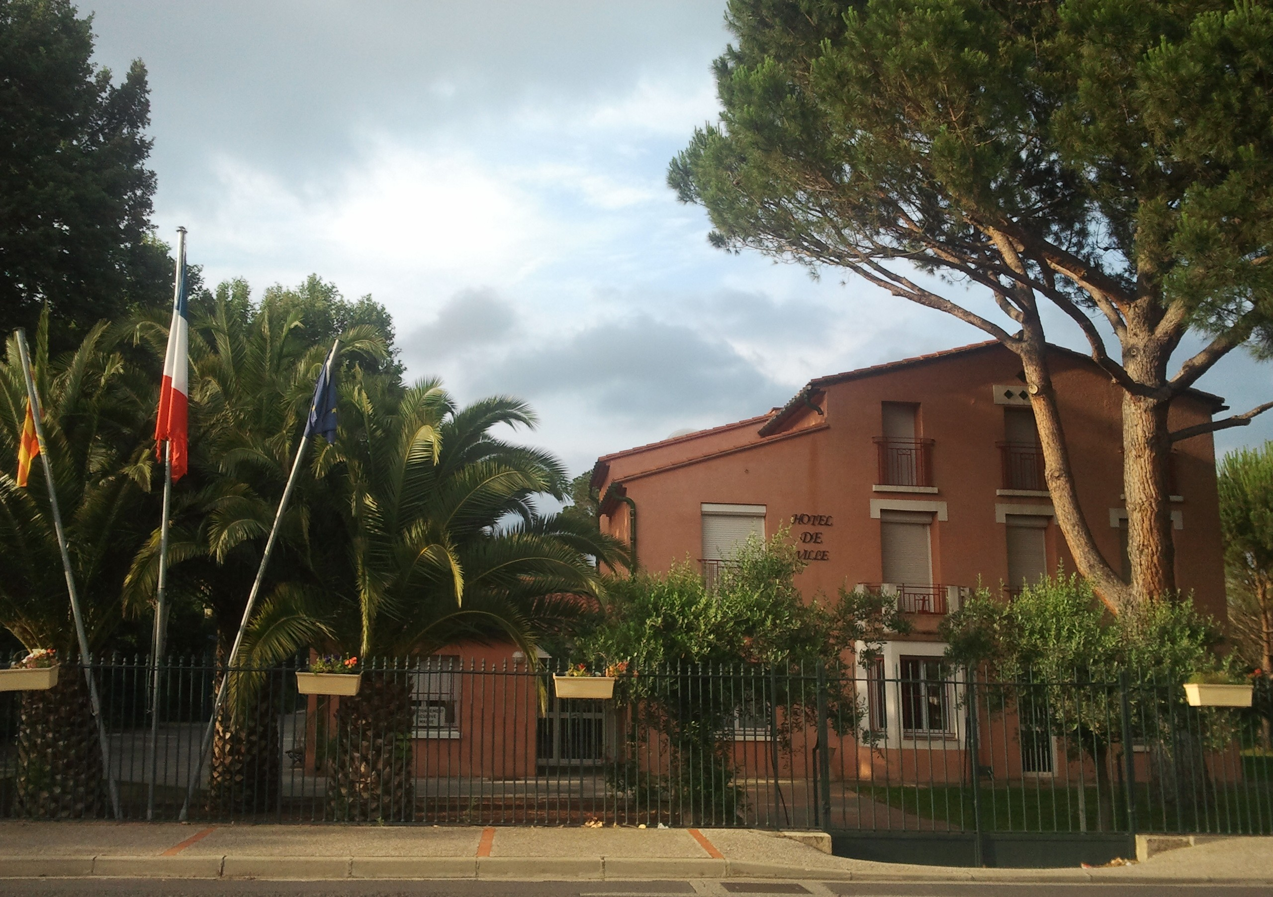 Town hall in Saint-Féliu-d'Avall